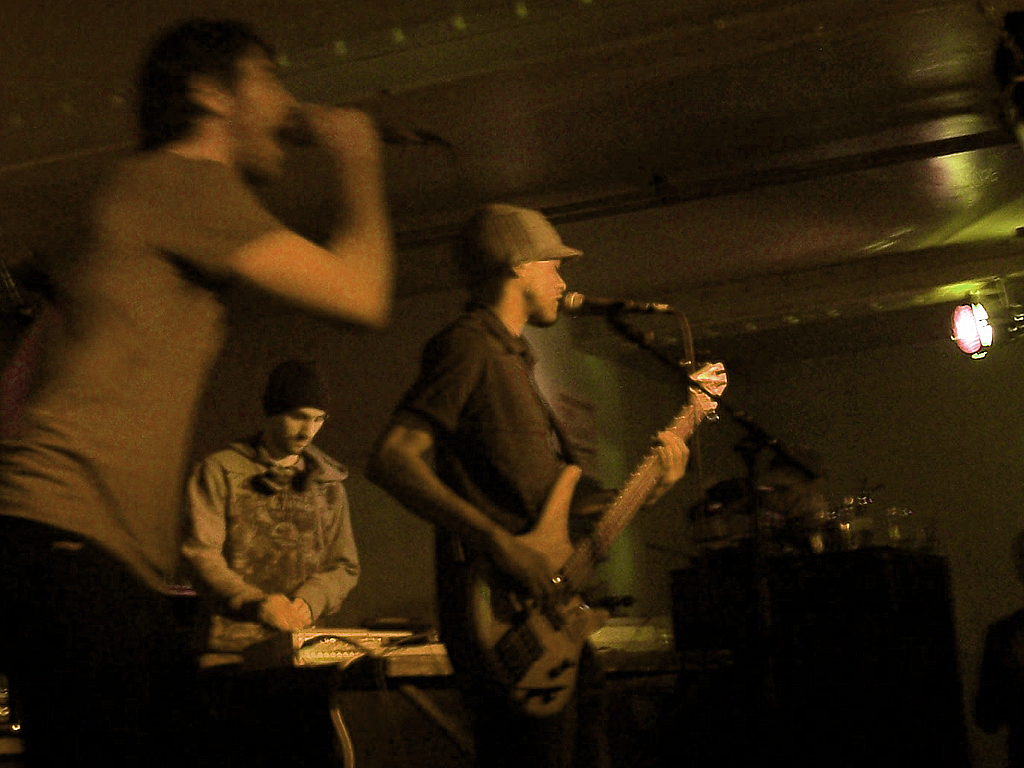 Stateless live at the Tea Time Shuffle January 2007. Chris James, Kidkanevil and Justin Percival.